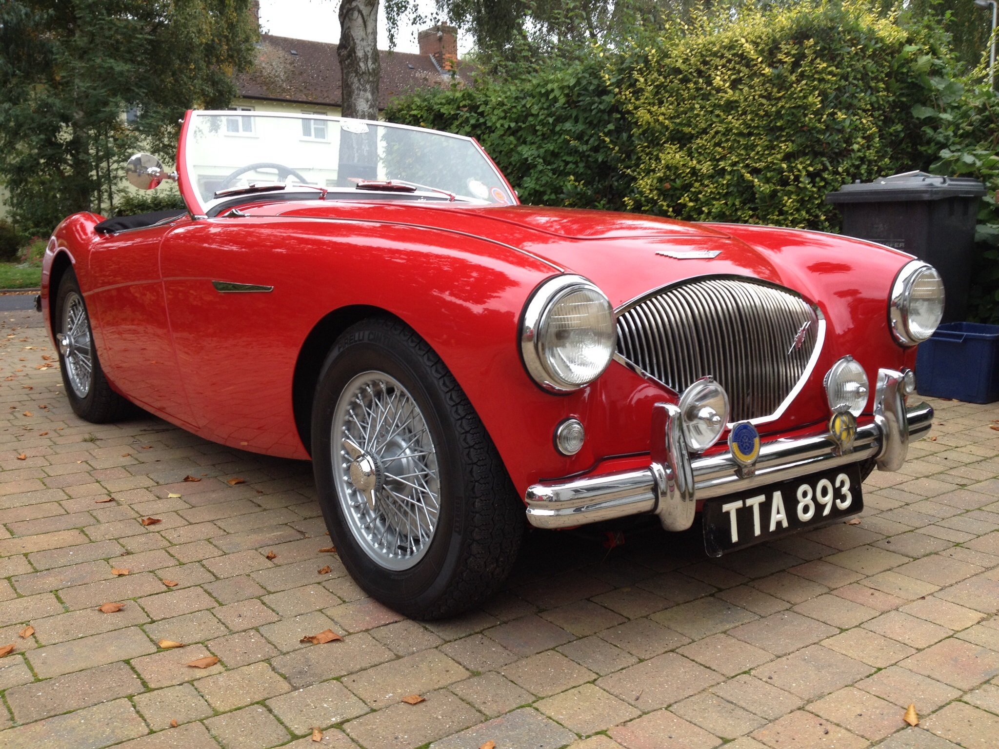 1955 Austin Healey BN1 - 2.6L four cylinder.